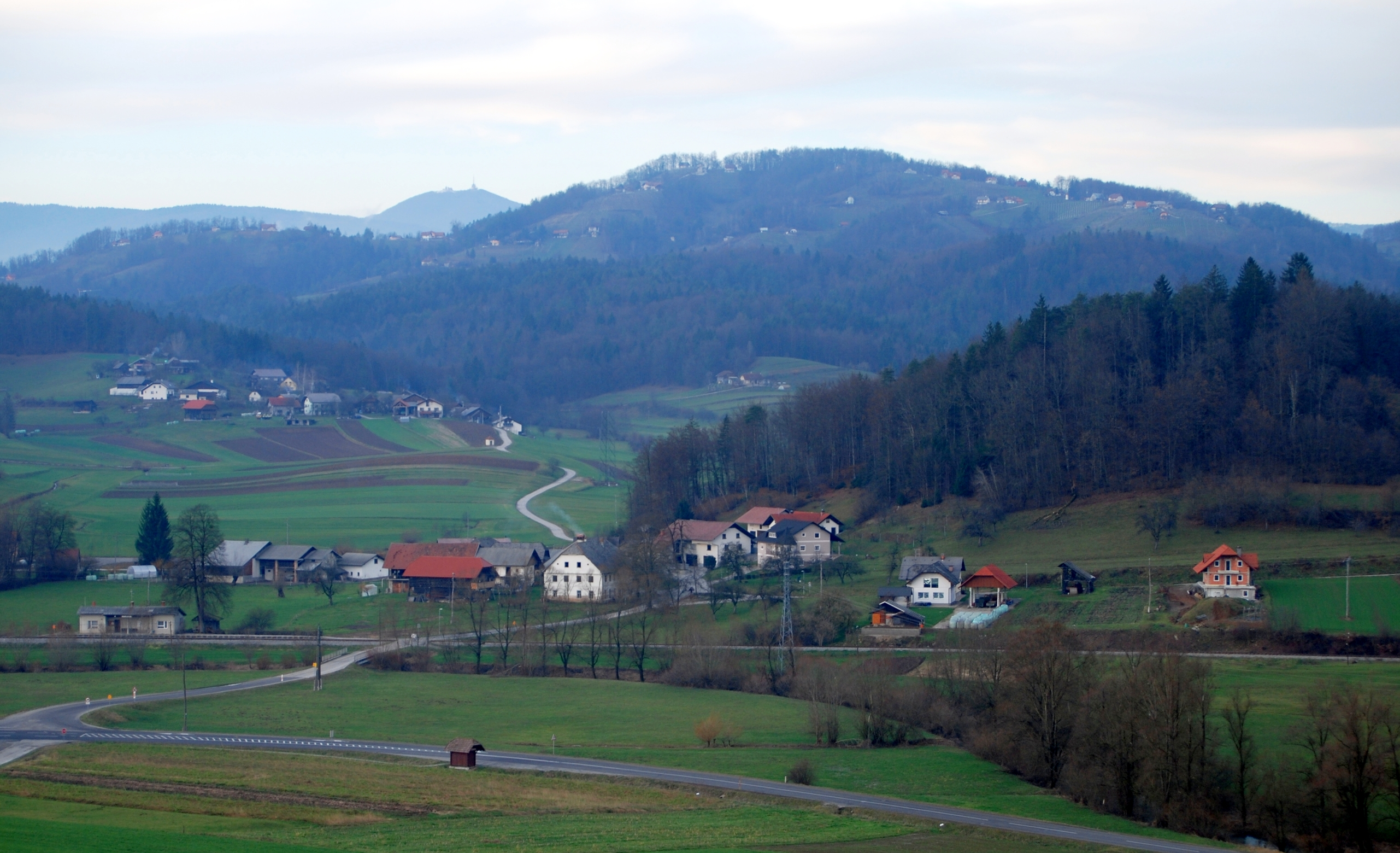 Pijavice (a village in the Municipality of Sevnica), photographed from Skrovnik (south). The Trebnje-Sevnica railway line and the Mirna River pass the village.